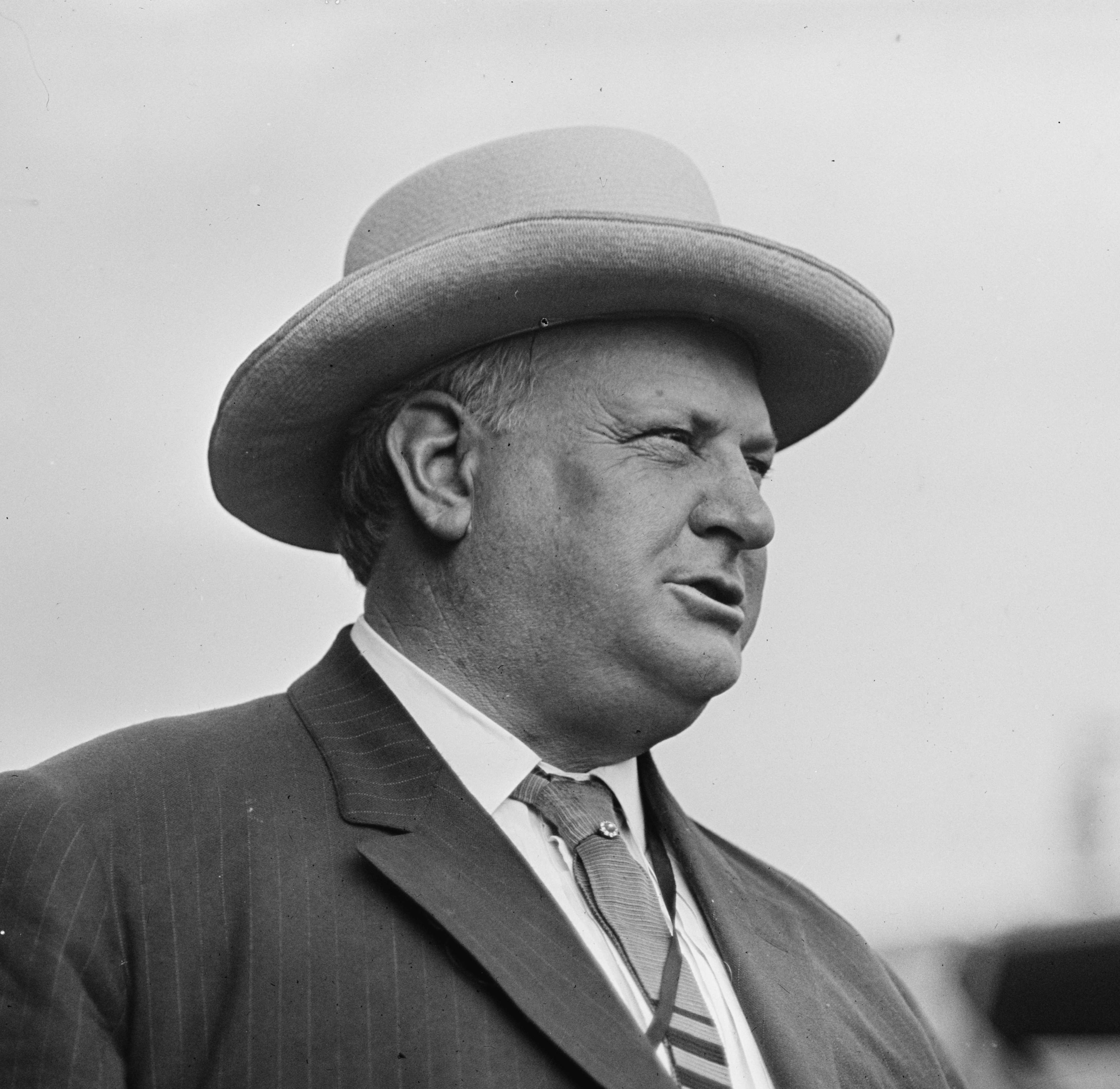 John J. Lentz, head and shoulders crop from file:John J. Lentz at 1912 Democratic National Convention.jpg